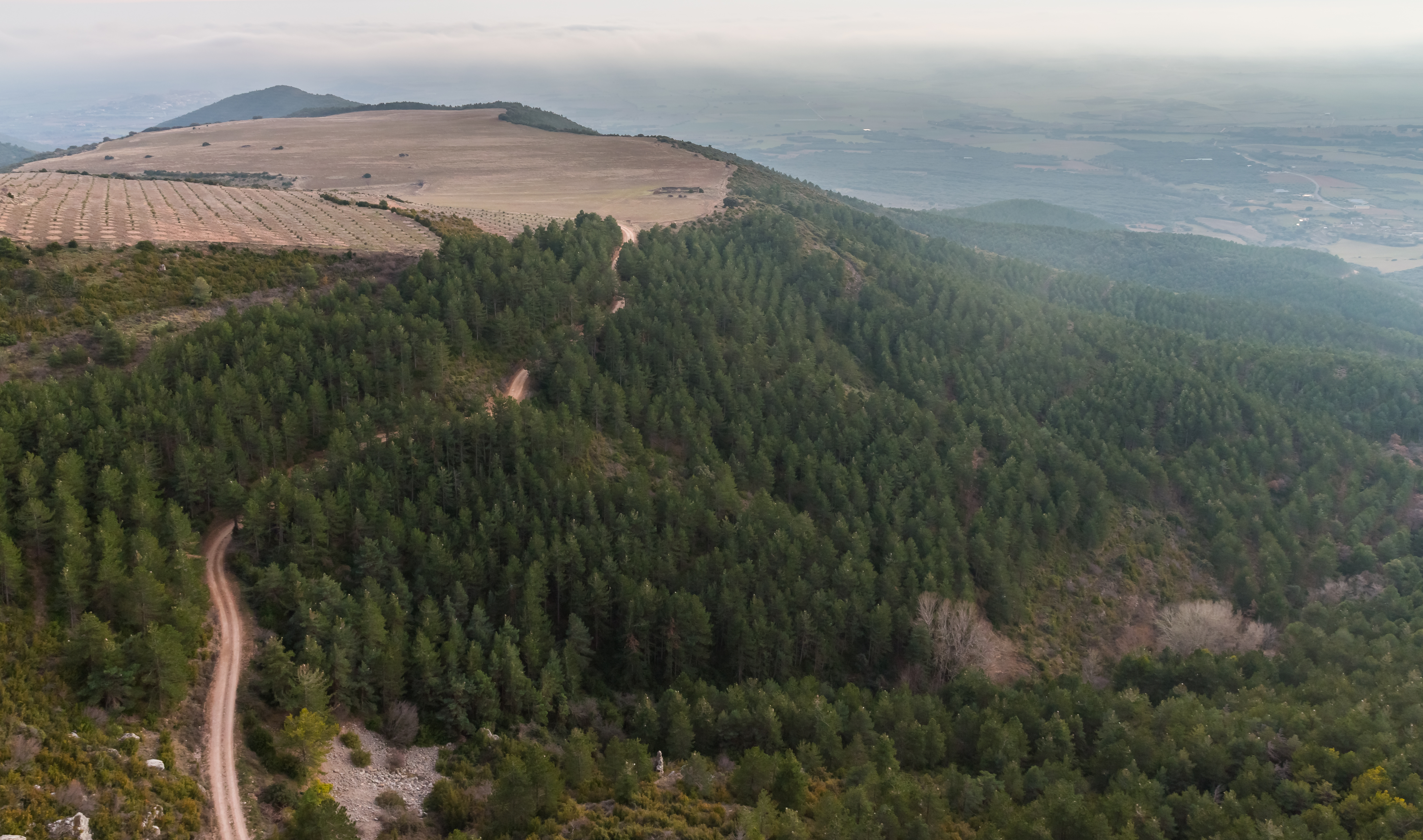 LIC Sierras de Santo Domingo y Cabellera, Aniés, Huesca, Spain.